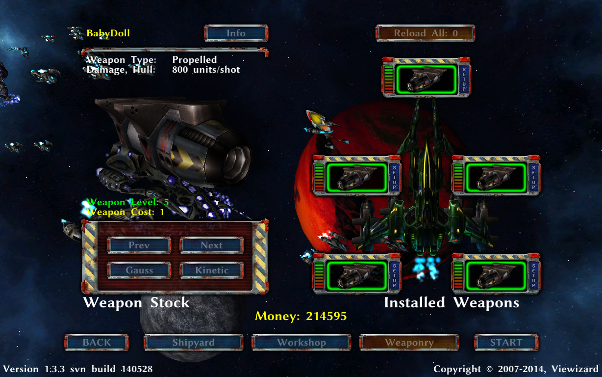 Screenshot of a cheat version of AstroMenace in the 'Weaponry' menu